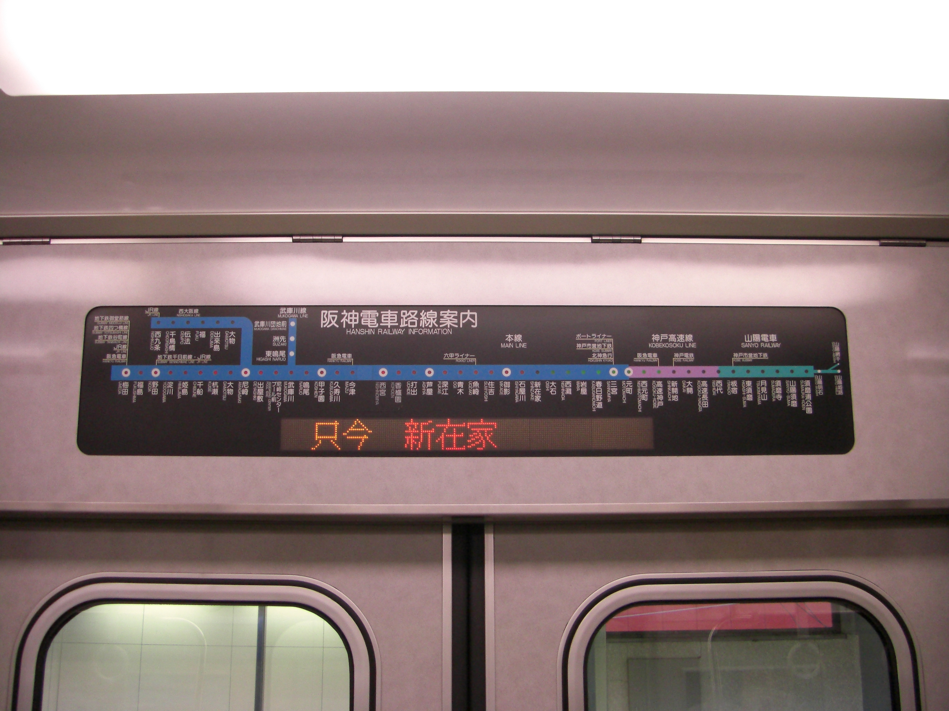 Display in Hanshin Electric Railway 5500 series train